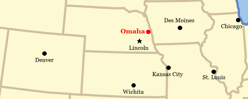 Relative location of city of Omaha, Nebraska, to Chicago and Denver, as well as other major cities nearby.